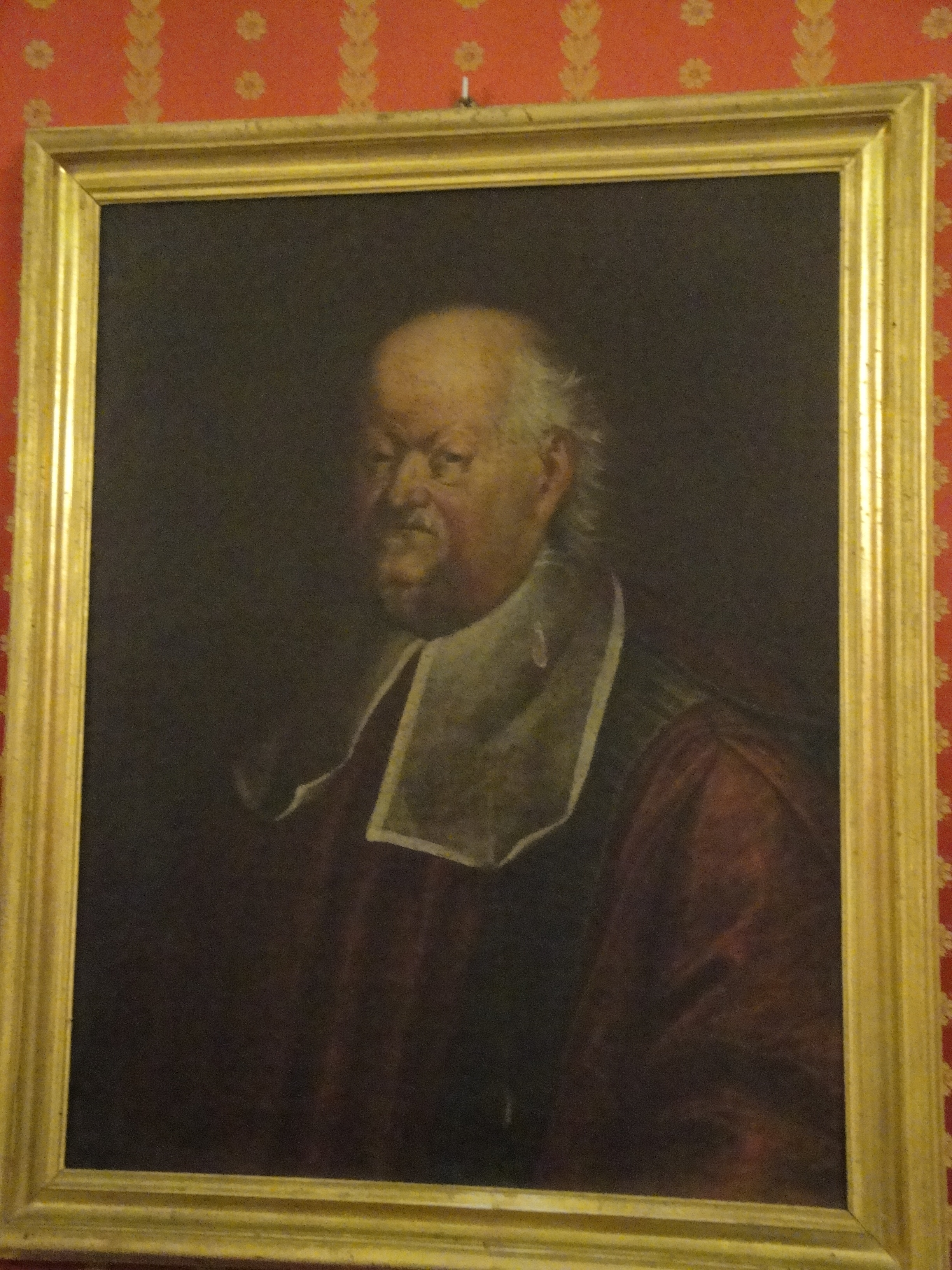 Pier Dandini, Portrait of the senator Marco Martelli